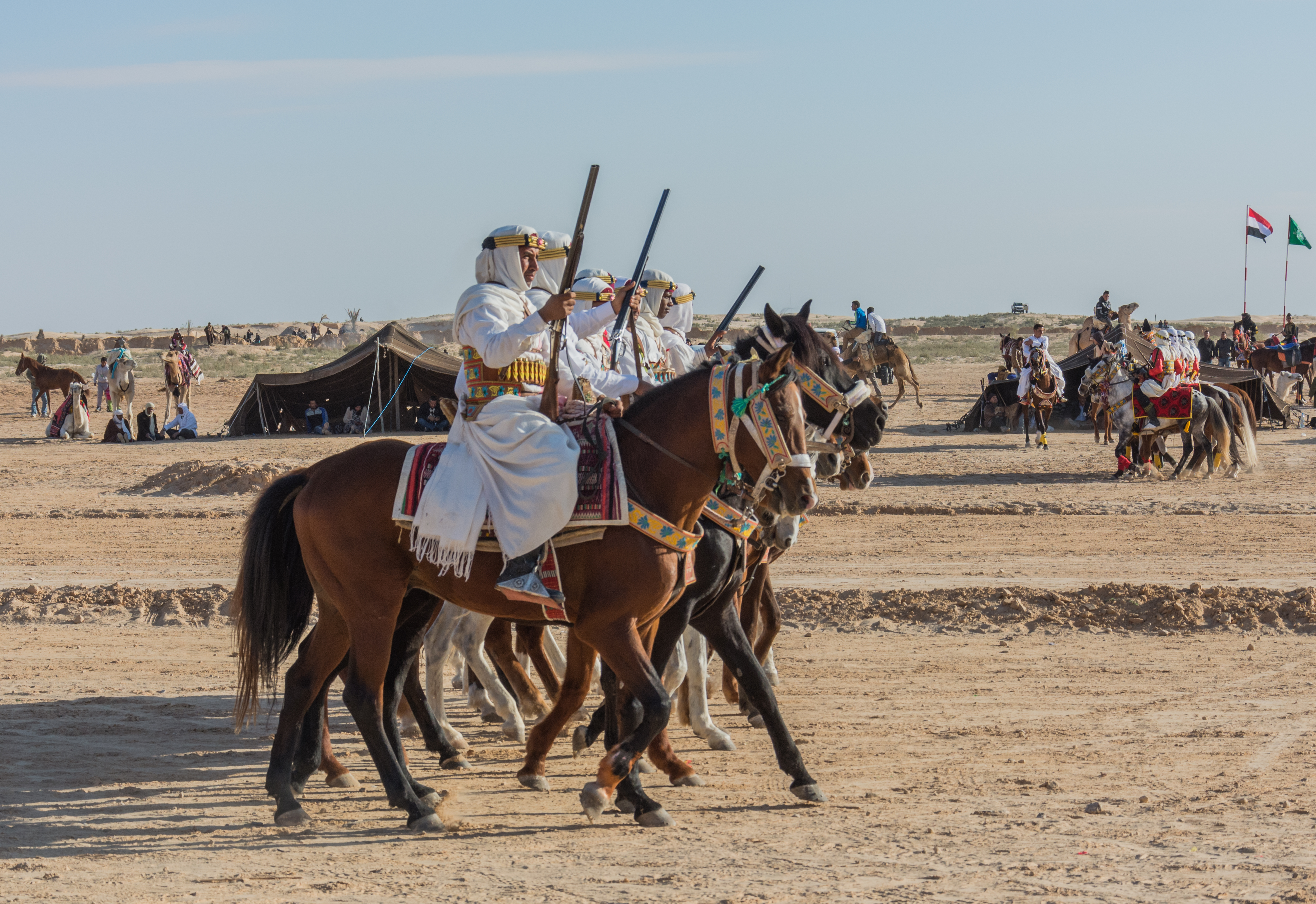 International Festival of Douz in Kebeli in Tunisia on 14th january, 2017 Walking Horses on drums sounds This is an image of music and dance from Tunisia